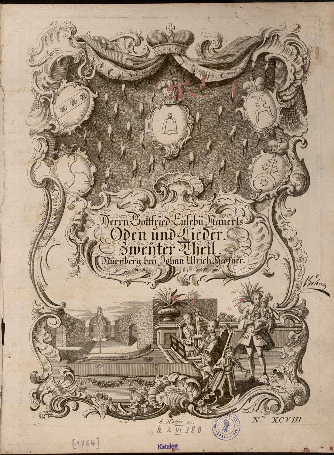 Title page to Gottfried Eusebius Nauert's "Odes and Songs" (second Part)